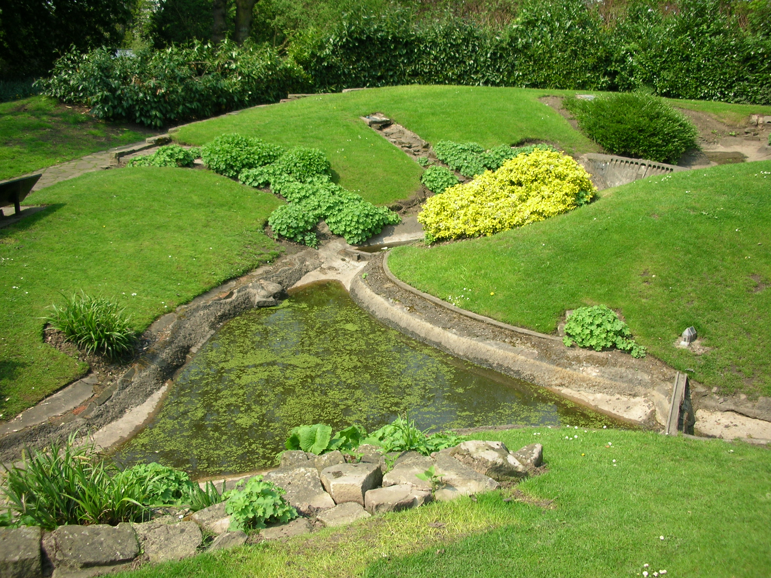 Model of the Elan Valley Reservoirs (Wales) in Cannon Hill Park, Birmingham